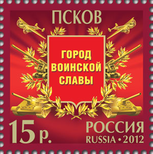 Cities of Military Glory 1